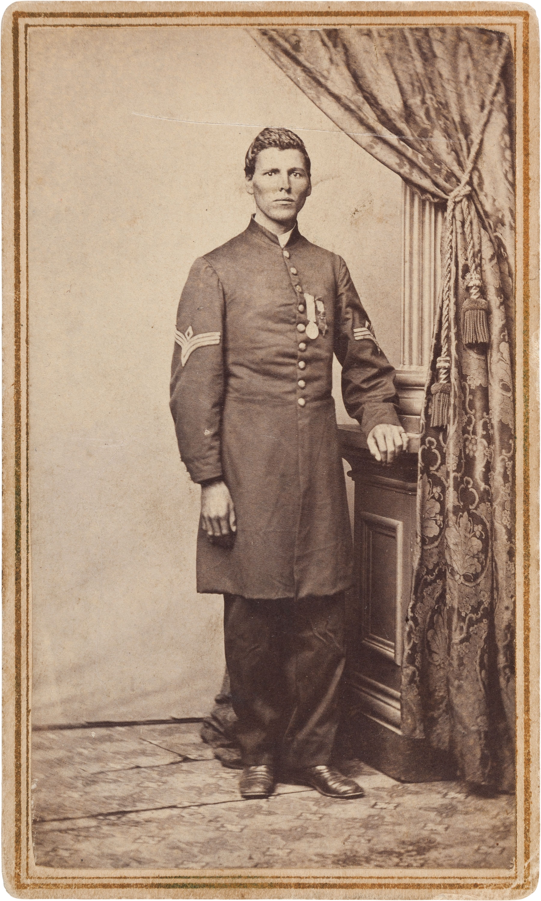 Carte de Visite portrait photograph of Milton M Holland